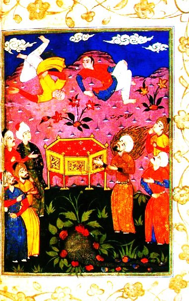 A miniature depicting Hud with the 'Ad people, from an illuminated manuscript collection of Stories of the Prophets